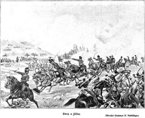 Battle of Gitschin (Jičín) on June 29, 1866, an epizode of Austro-Prussian War. An illustration to book Válka z roku 1866 v Čechách, její vznik, děje a následky (1866 War in Bohemia - its origins, events and consequences) by Servác Heller (1845 - 1922)